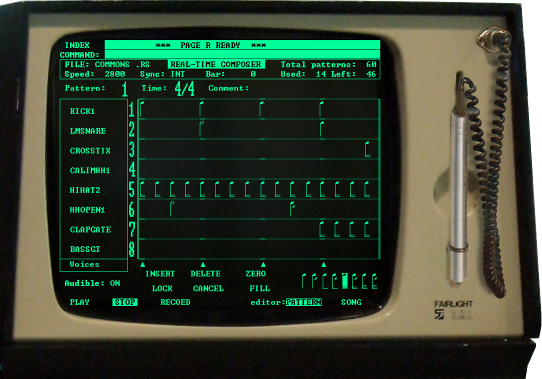 Page R (Real-Time Composer) on Fairlight CMI Series II